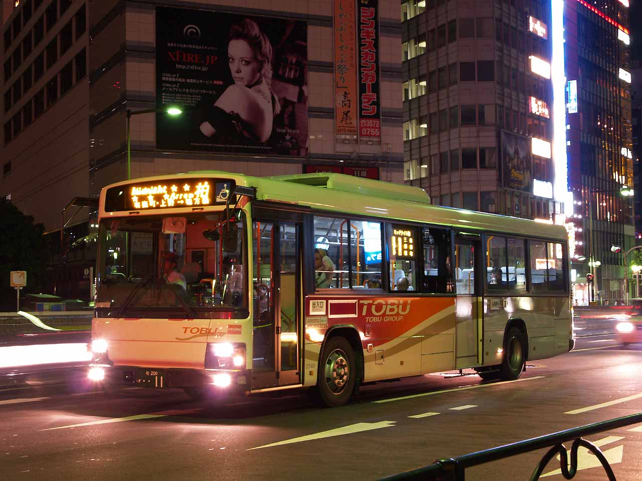 Tobu Bus East midnight express bus service "Midnight Arrow", bound for Misato and Kashiwa, from Ginza and Ueno. Model: Isuzu Erga LV234Q (One-step low-floor type) License plate: CBK200 KA--11 Place: neighbour of Sukiyabashi crossing, Chuo ward, Tokyo Japan